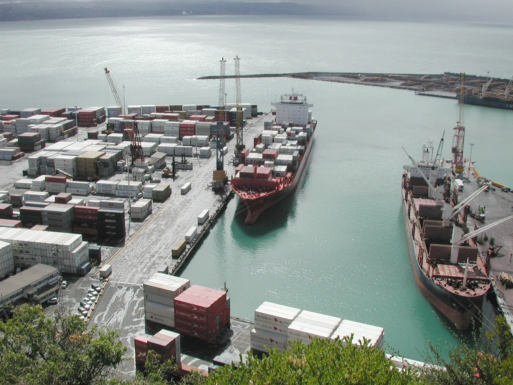 Port of Napier, viewed from Bluff Hill.